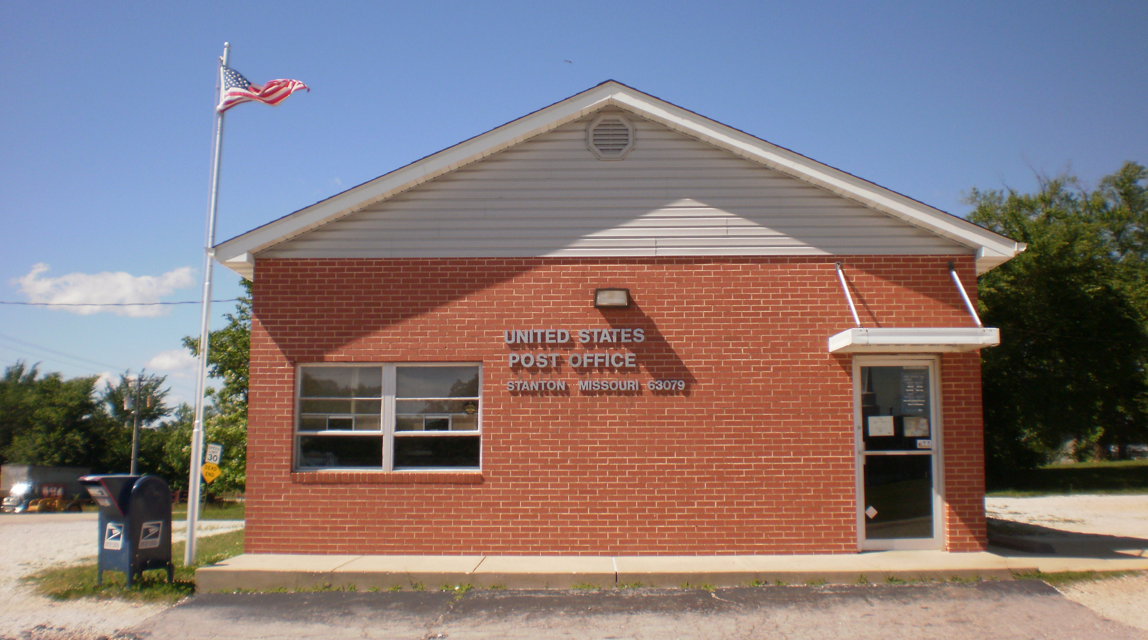 The USPS office located in Stanton, Missouri.